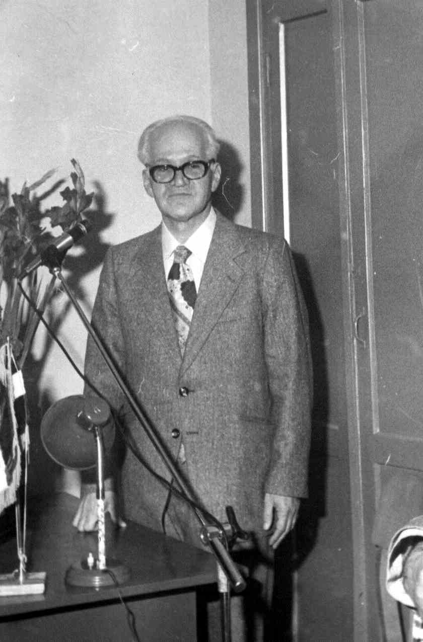 Ebrahim Safaei Behind a desk